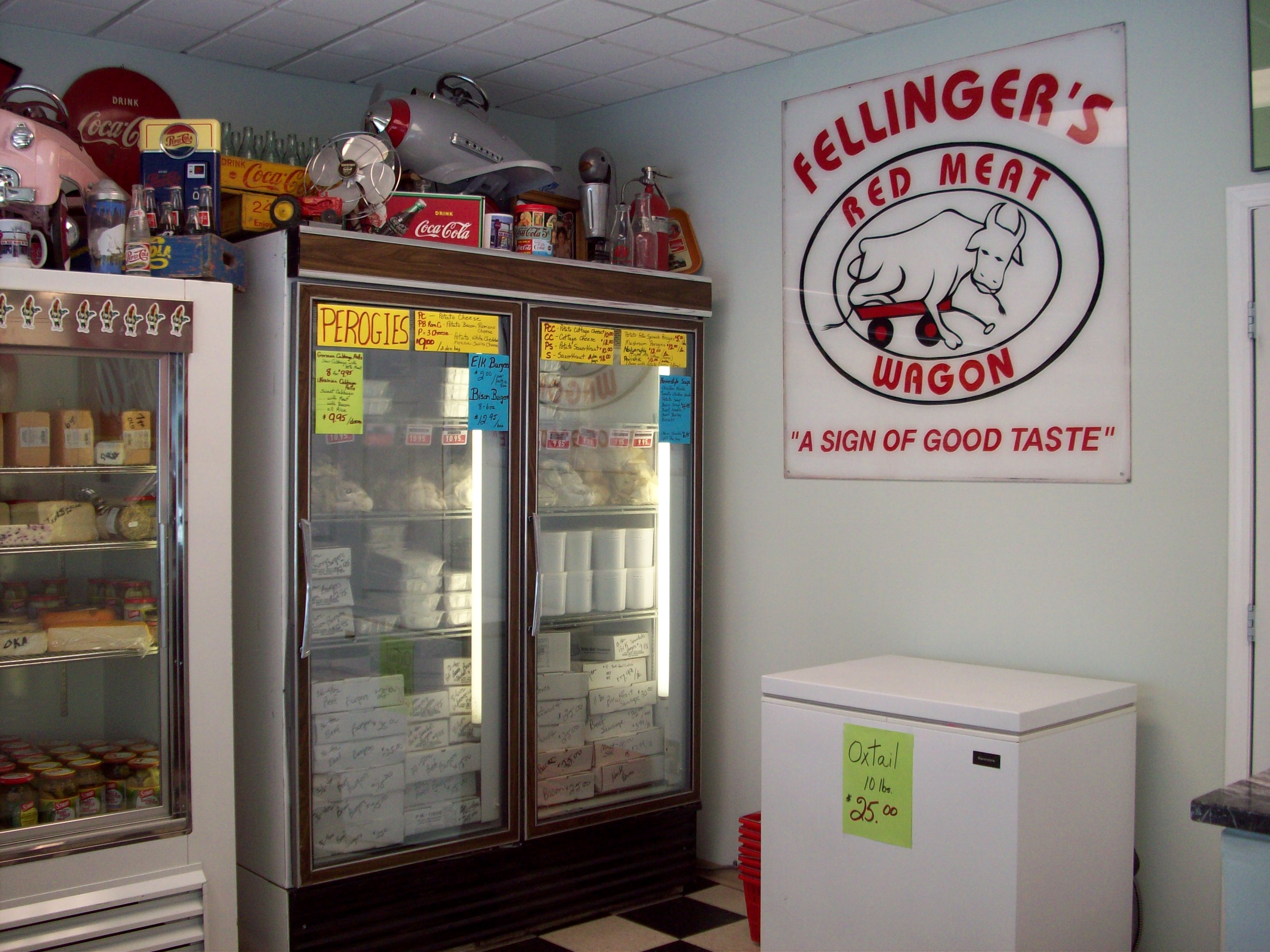 Fellinger's Meat Market, formerly in Germantown, now relocated to the West End